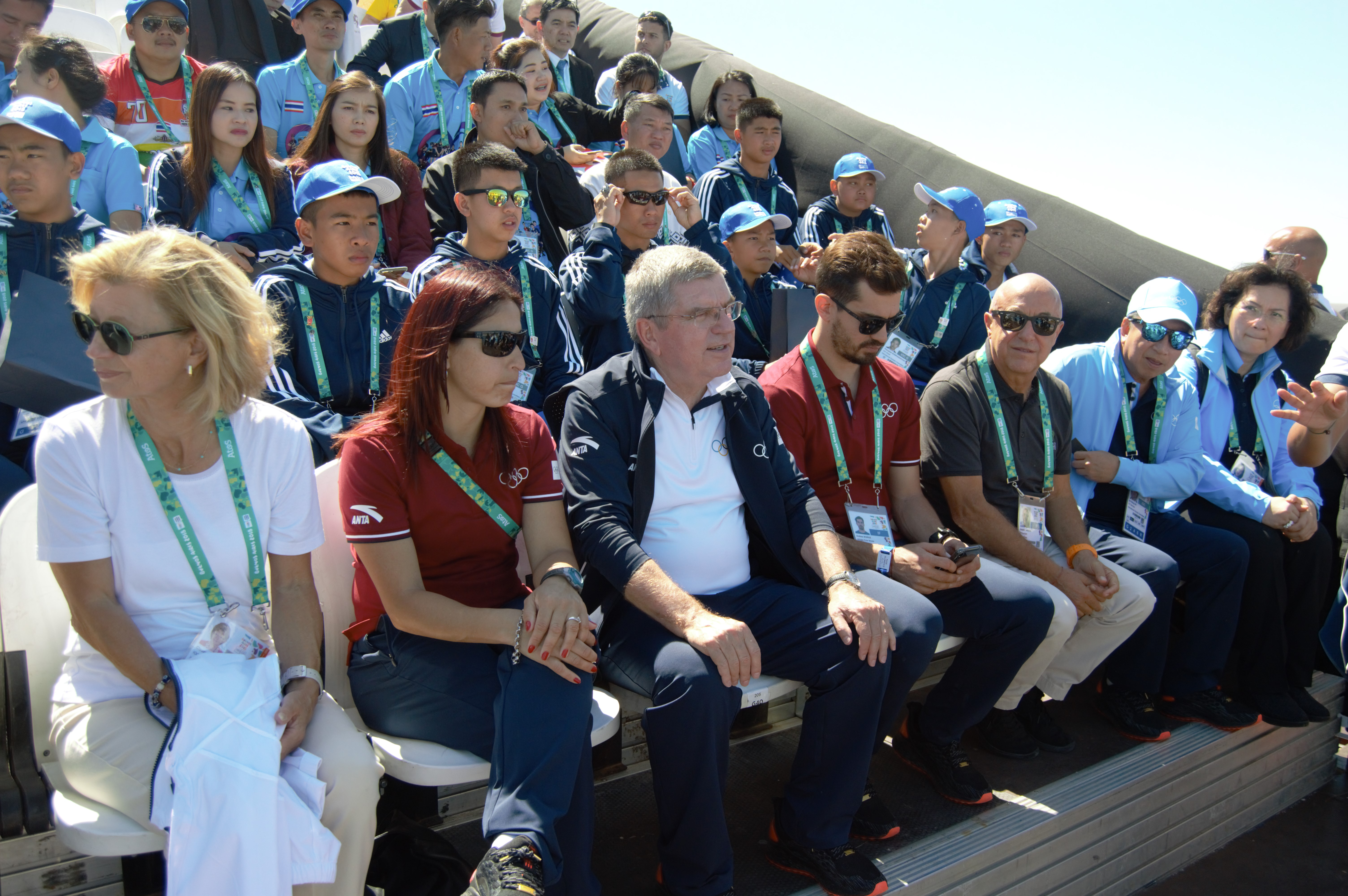 Members of the Wild Boars football team that were successfully rescued from the Tham Luang at the 2018 Summer Youth Olympics with Thomas Bach, President of the IOC.